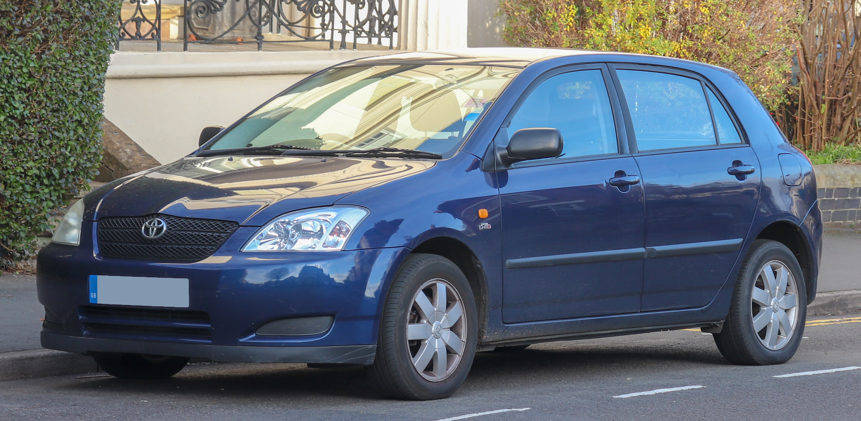 2003 Toyota Corolla D-4D Diesel Colln 2.0 Front Taken in Leamington Spa